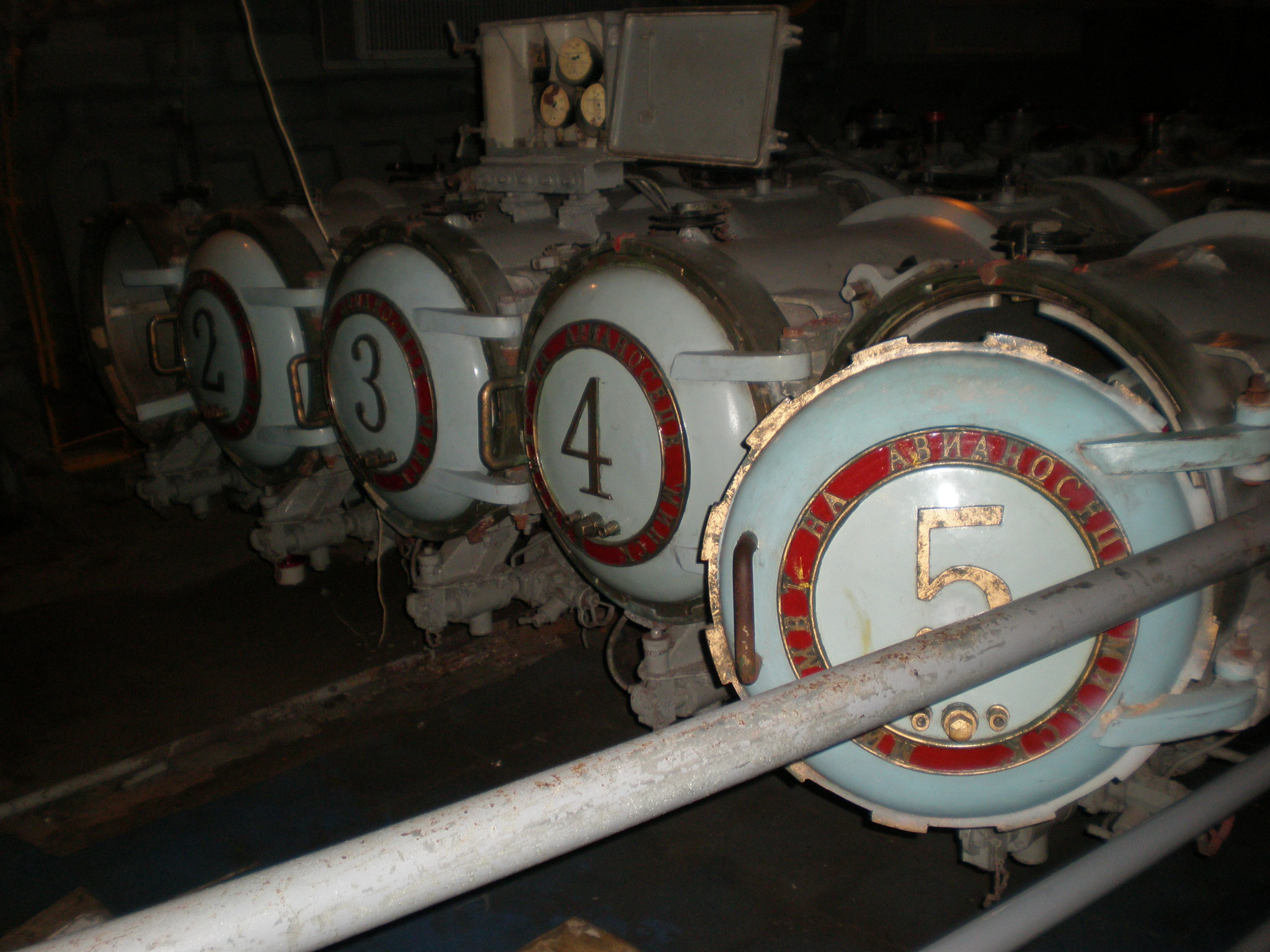 The torpedo area of the former Soviet aircraft carrier Minsk. The Minsk is the centerpiece of the Minsk World military theme park in Shenzhen, China.